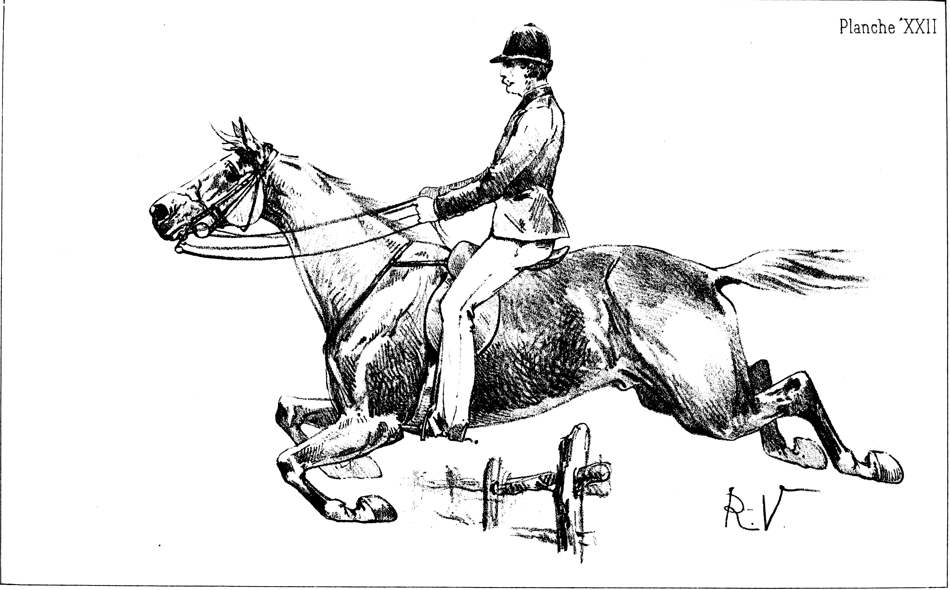 Illustrations fromPrincipes de dressage et d'équitation (James Fillis)